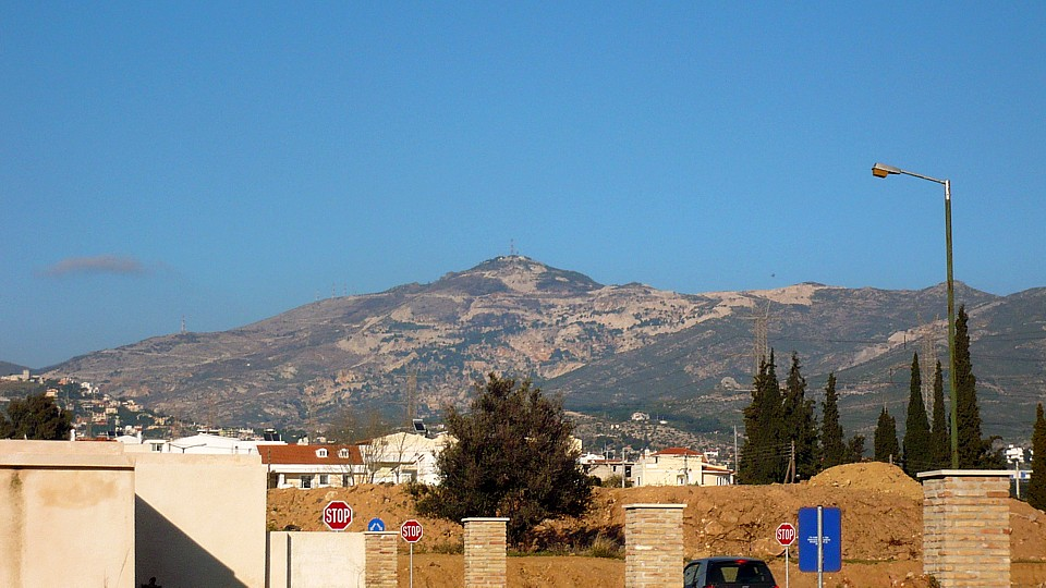 The picture depicts the Penteli Mountain as seen by the Cemetery belt from Gerakas of East Attica/Greece.